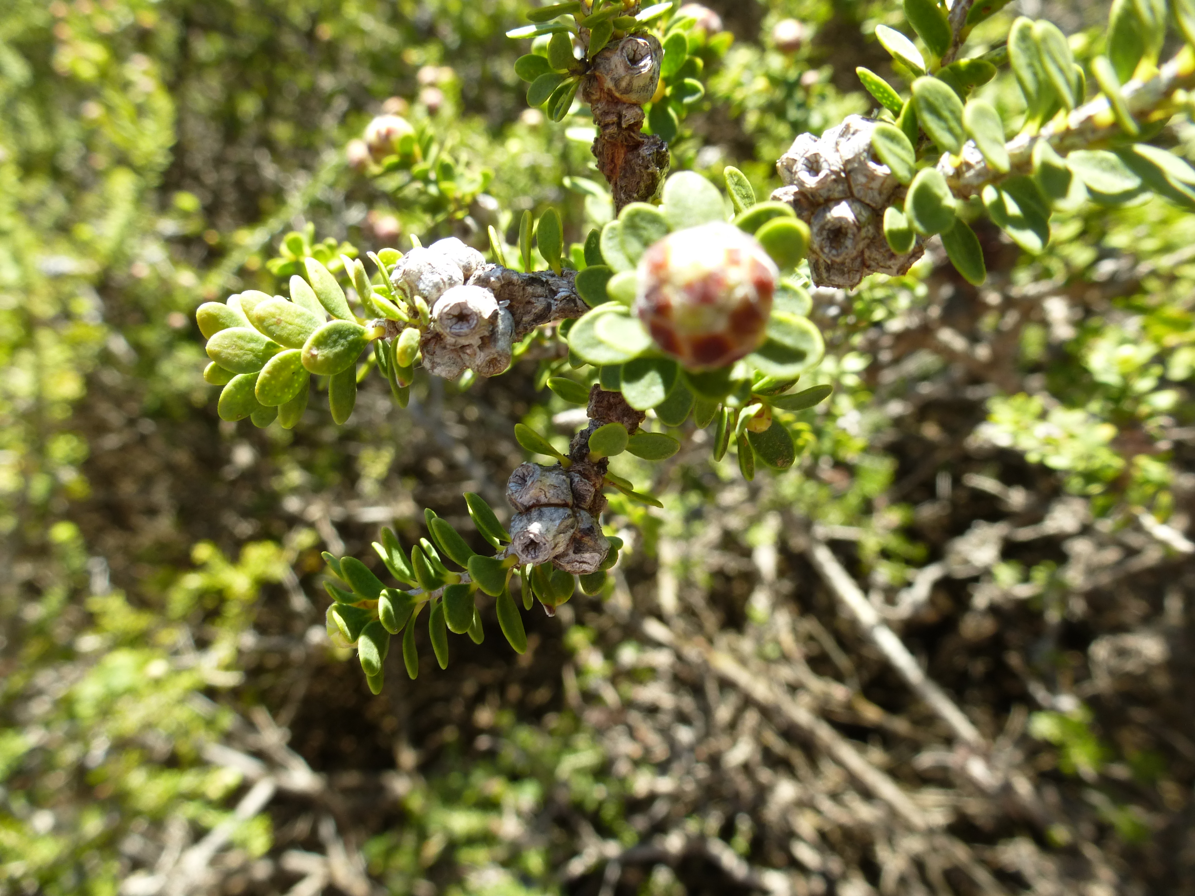 Melaleuca amydra 25km N of Eneabba